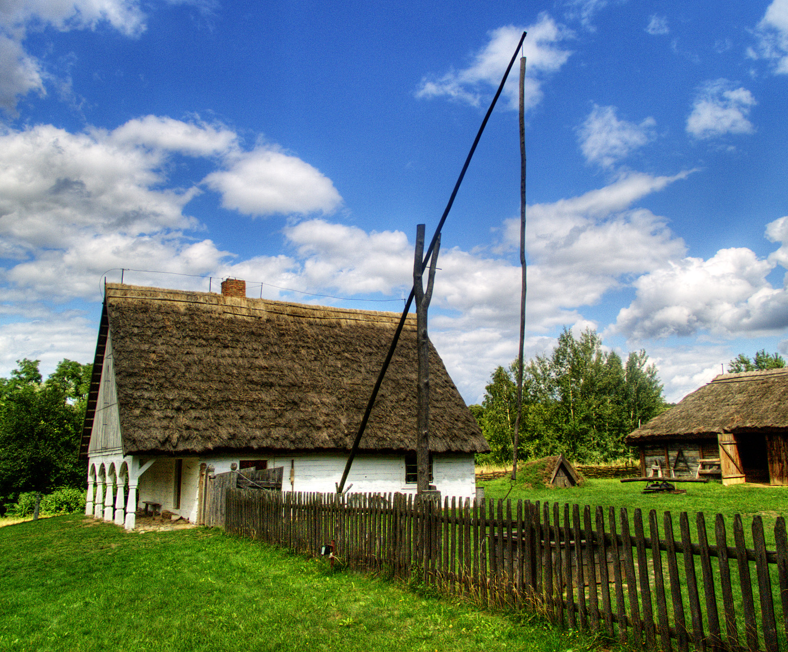 KUJAVIAN-DOBRZYN Etnographic Park in Kłóbka